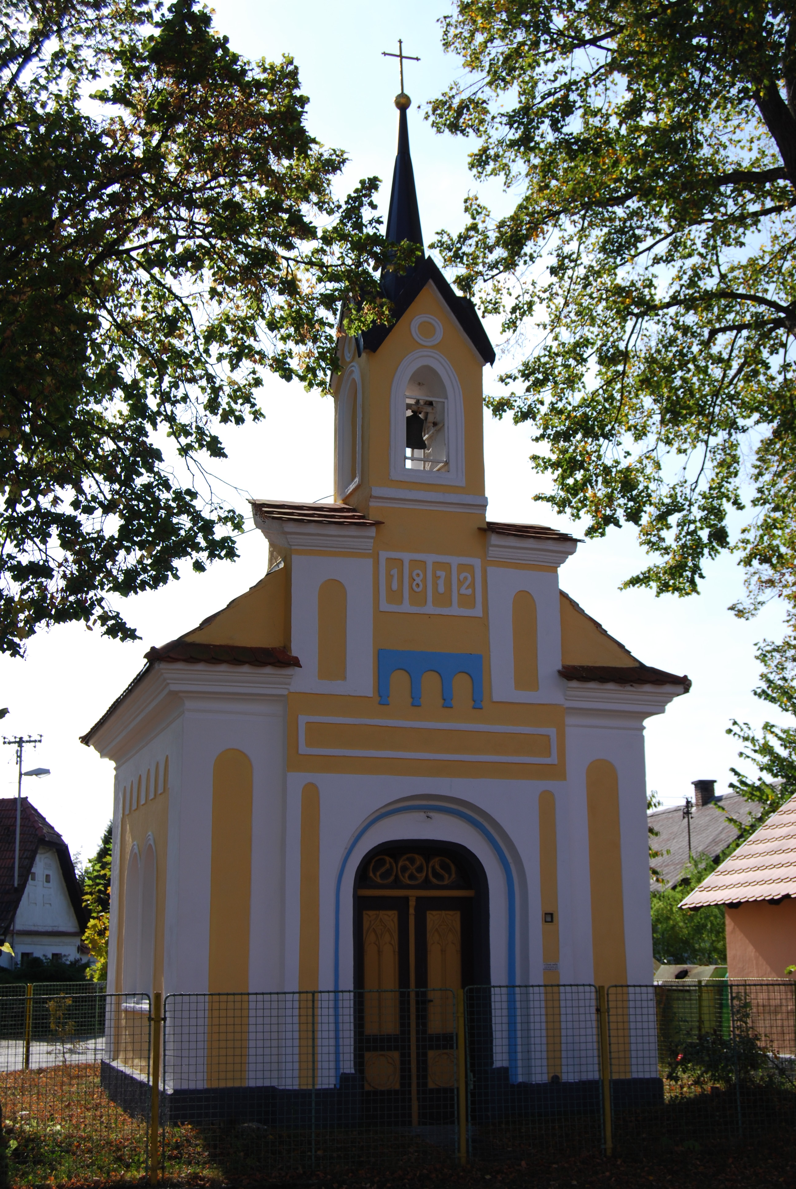 Zahrádka, part of Kostelec nad Vltavou village in Písek District, Czech Republic. Chapel